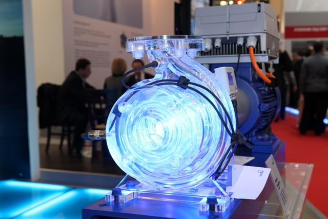 Displayed development at exhibition